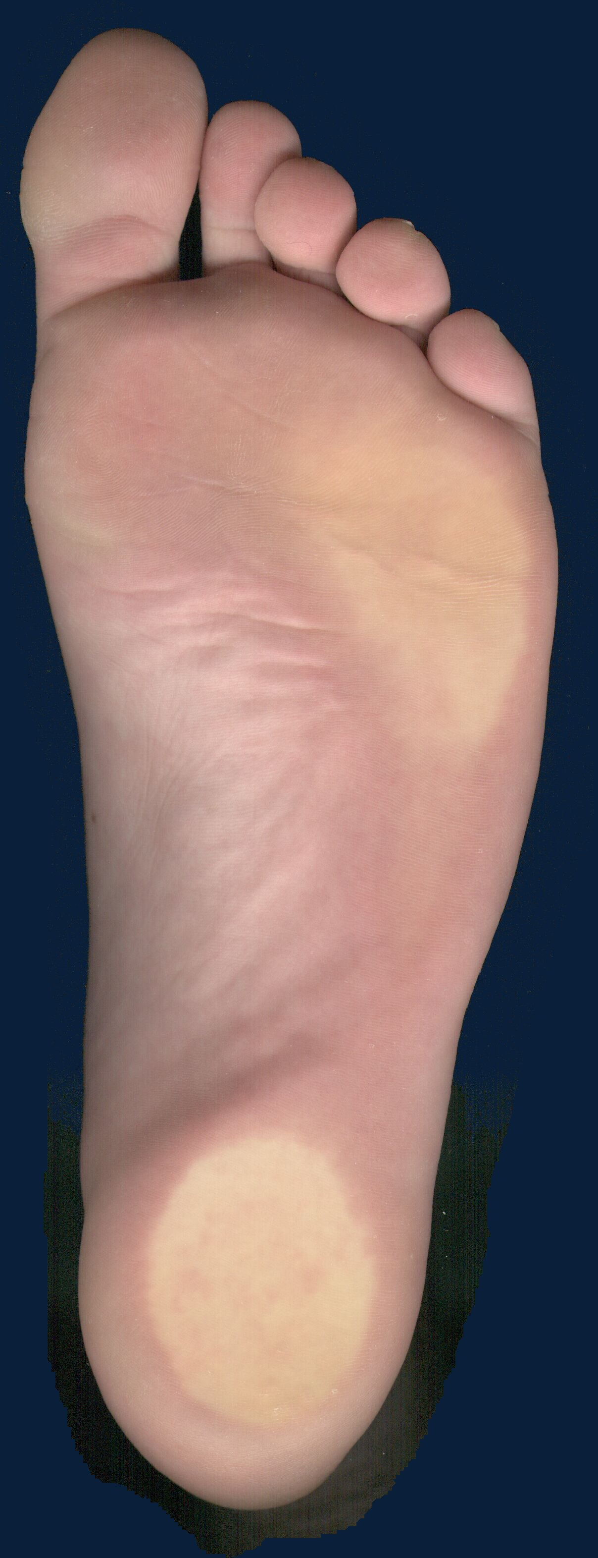 Right male sole